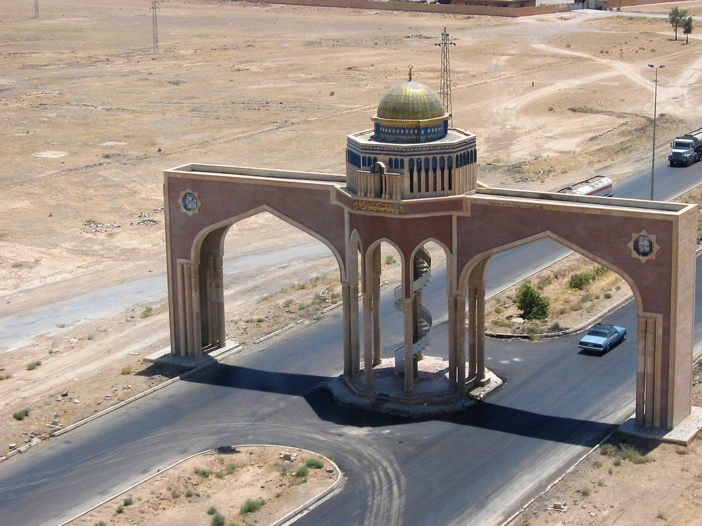 Aerial view of the Gates of Tikrit